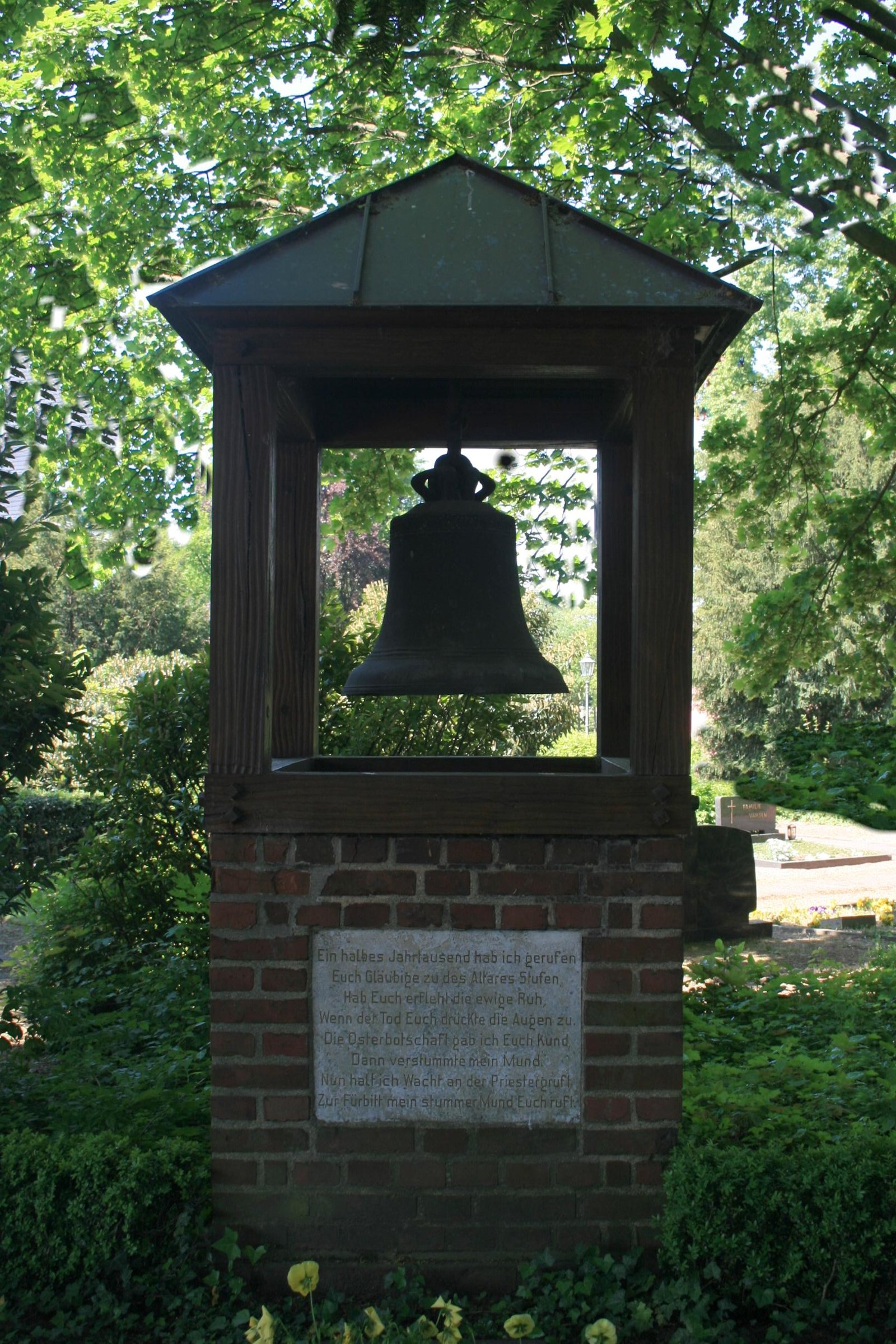 Cultural heritage monument No. 14 in Niederzier